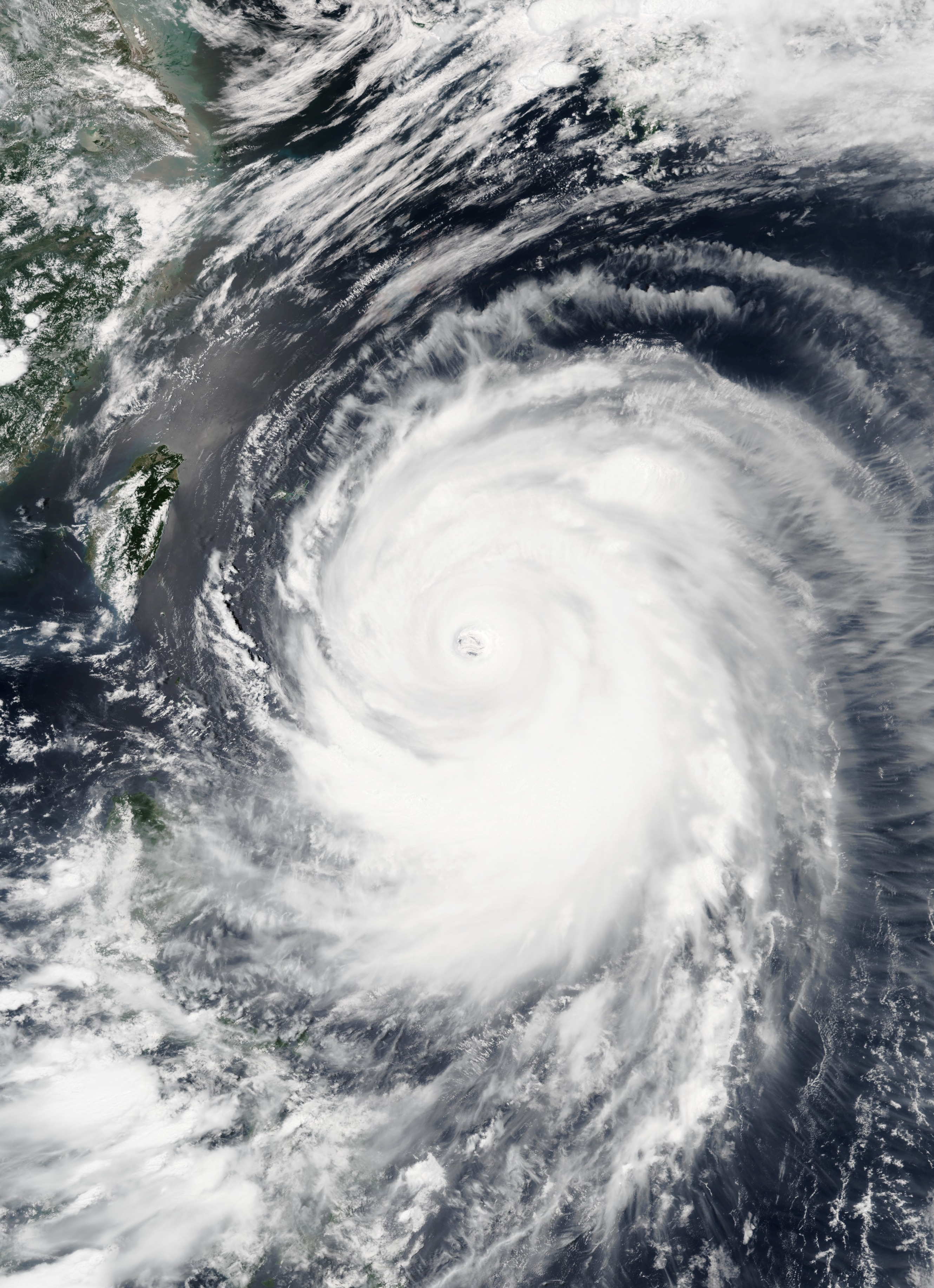 Typhoon Neoguri (08W)